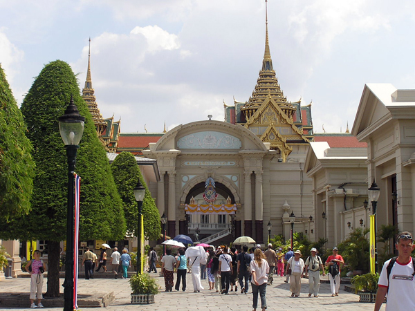 Pimanchaisri door gate within Grand Palace Bangkok Thailand